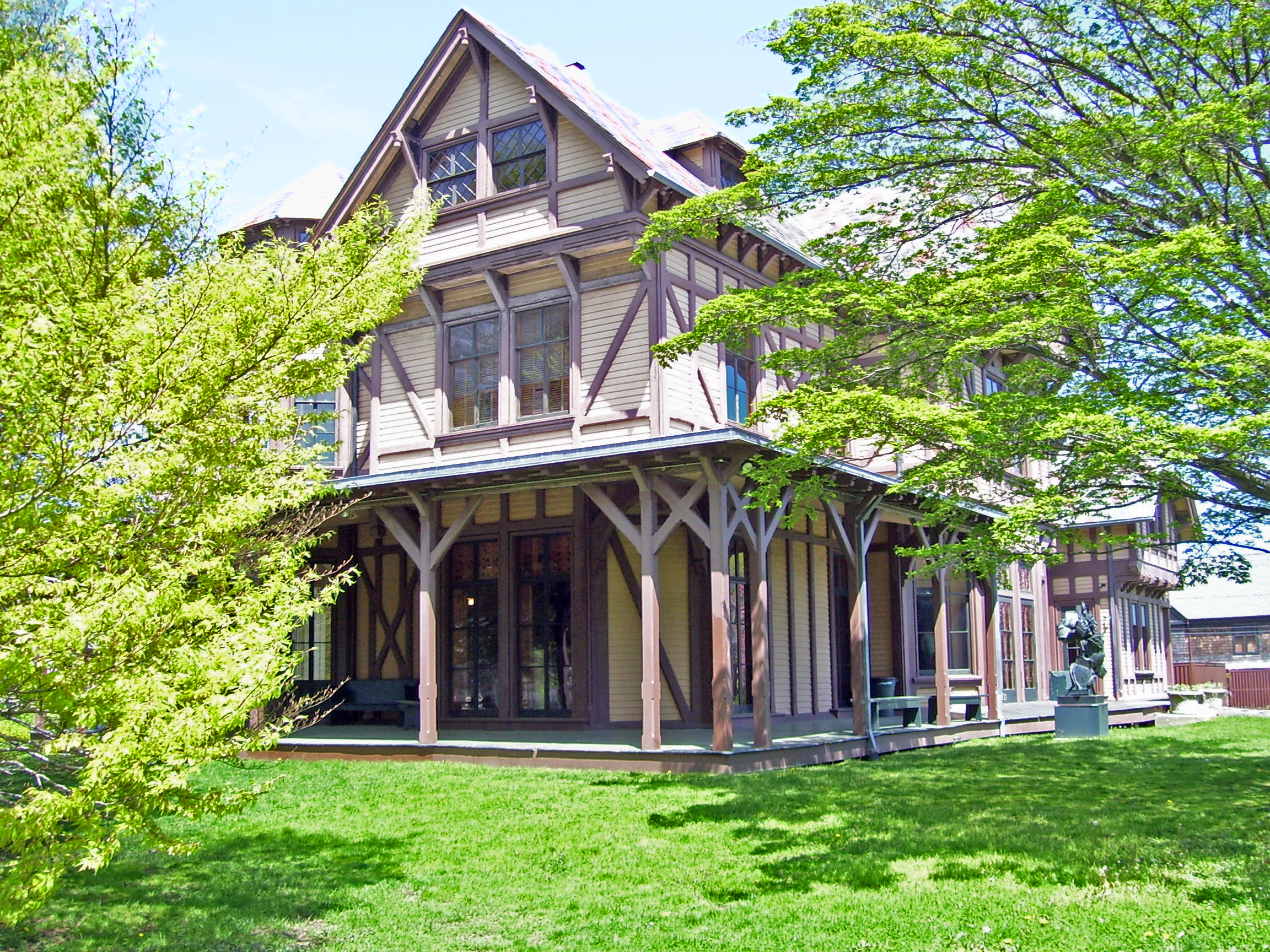 The John N. A. Griswold House - Newport Art Museum — in Newport, Rhode Island. 1862 Victorian Stick style architecture by Richard Morris Hunt. My pic in 2008.